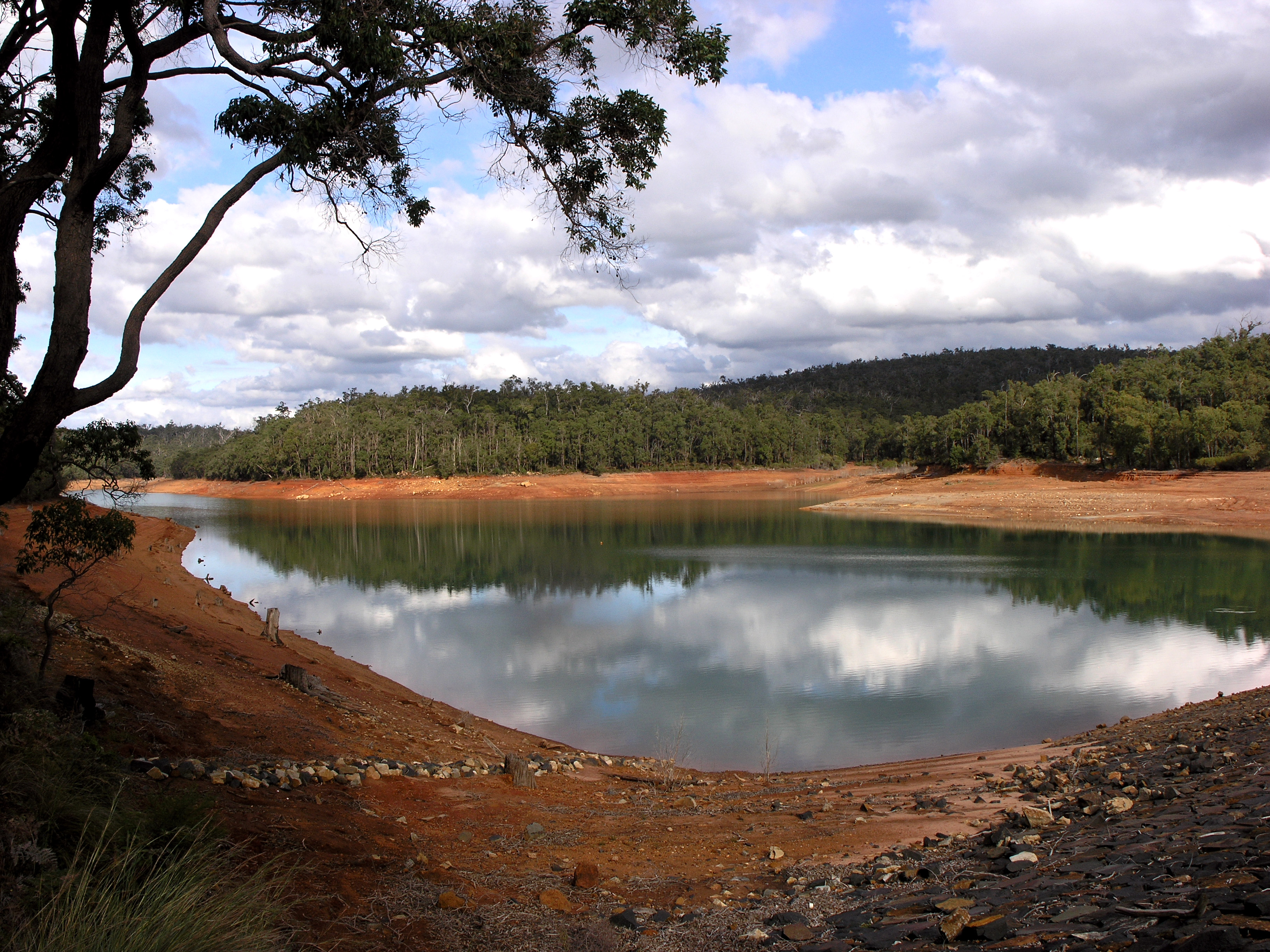 Churchman Brook Reservoir, Perth WA